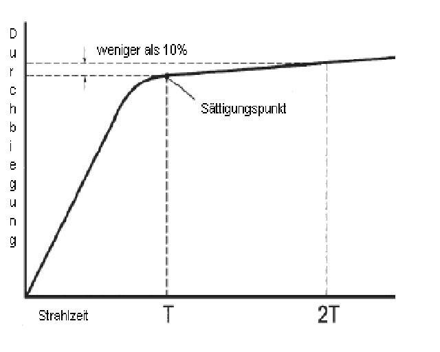 Almen Saturation Kurve